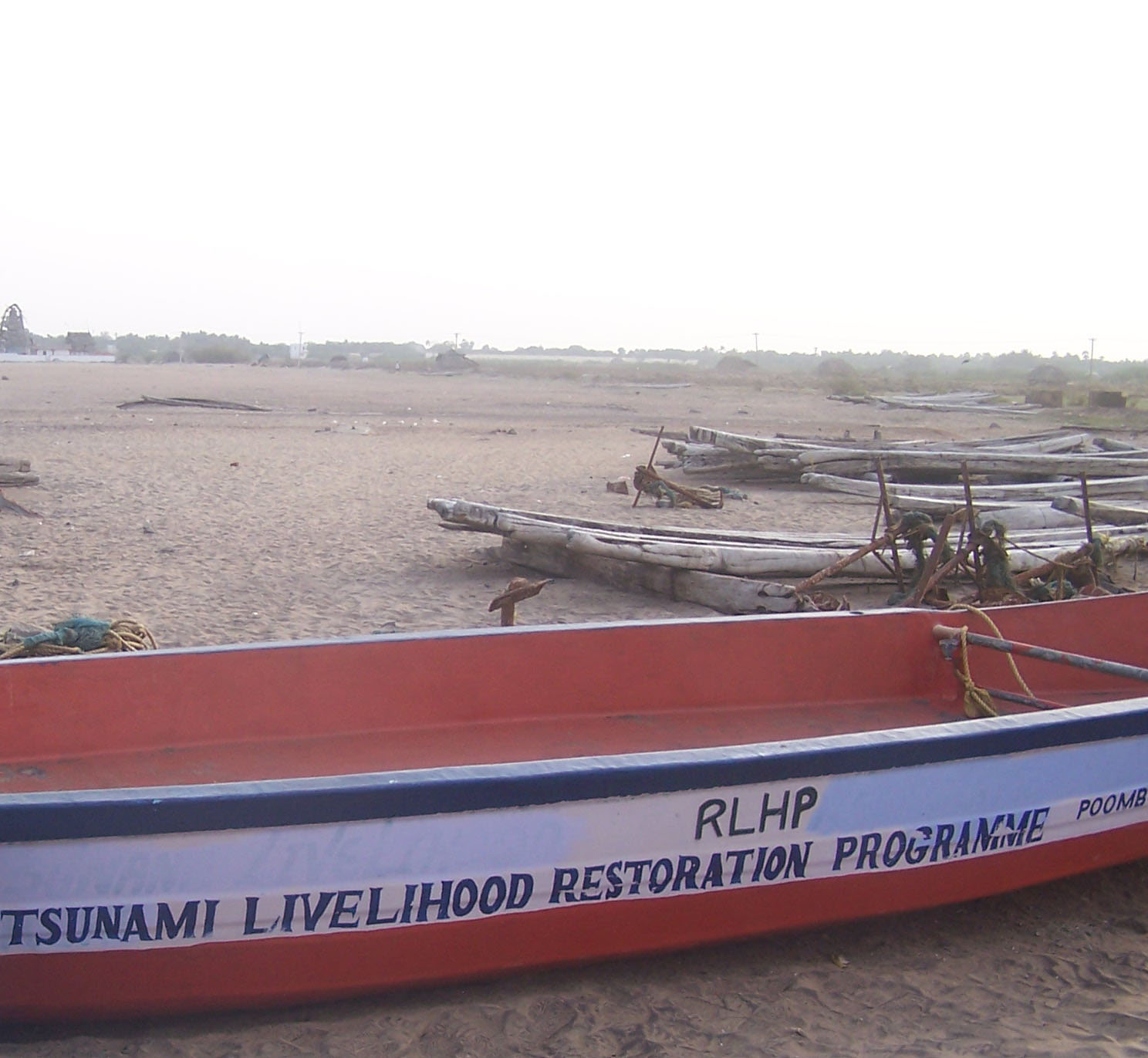 Photo of Fishing Boat sponsored by Tsunami restoration project - Poompuhar [Puhar] - TamilNadu - India